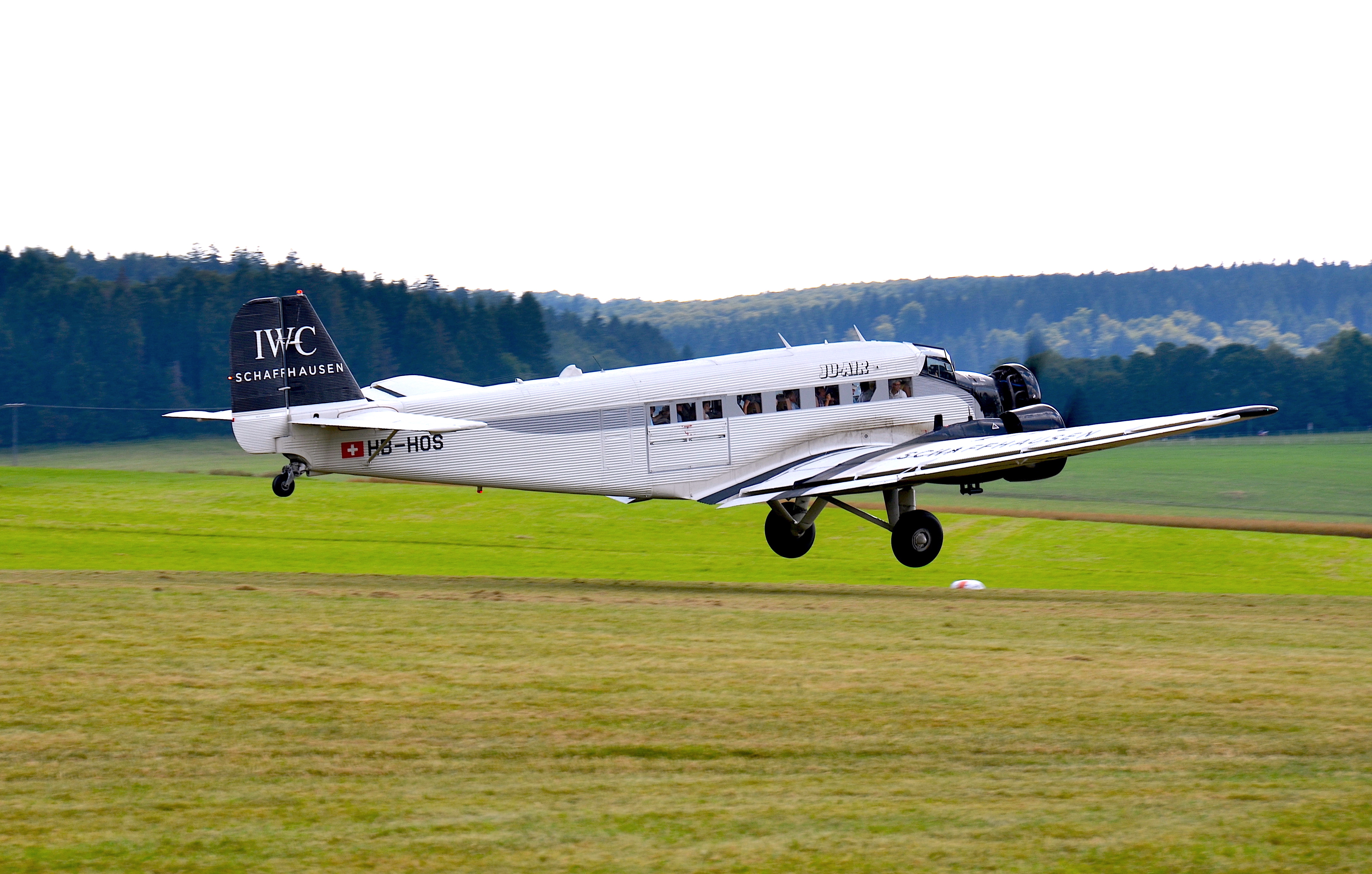 Ju 52 HB-HOS at airshow (2016)